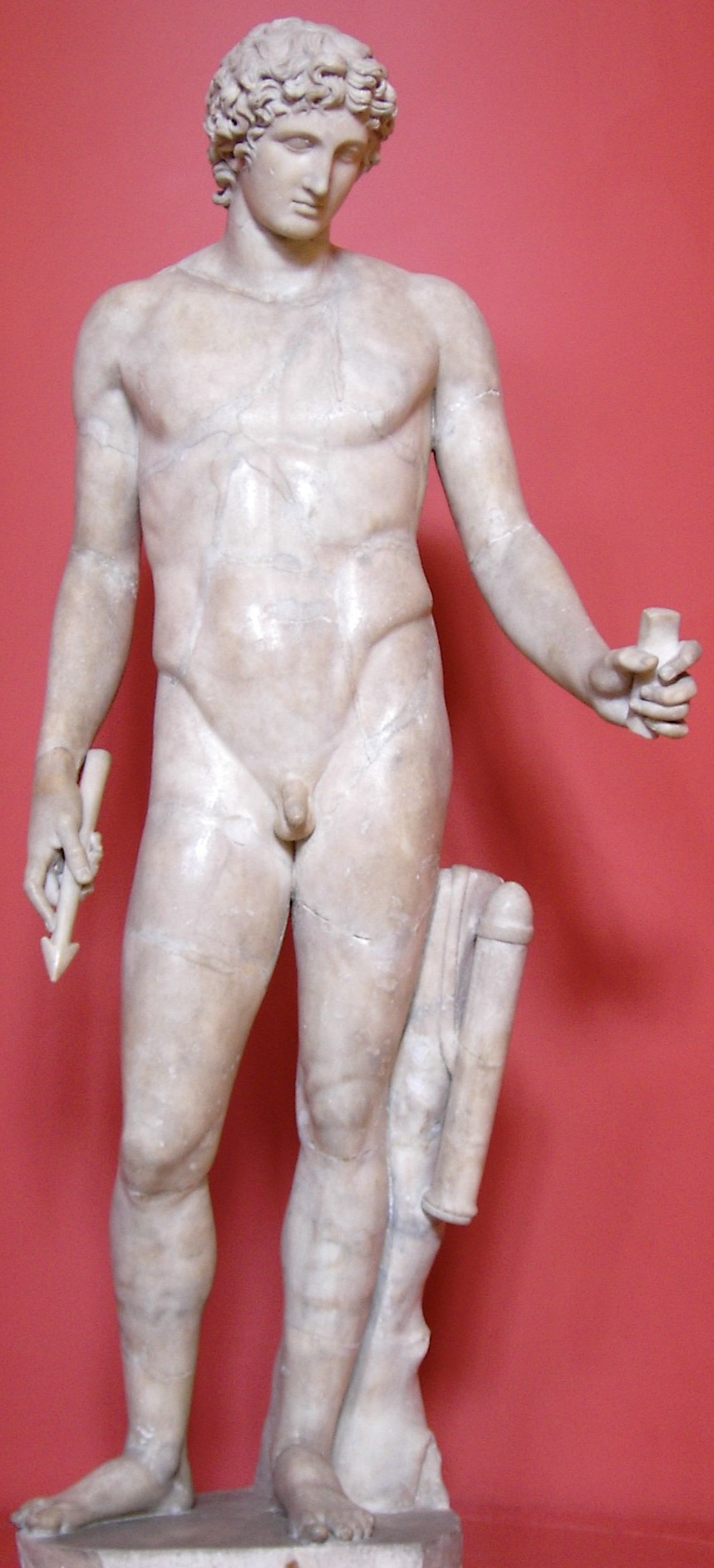 Adonis Centocelle (Apollo probably with bow and arrow), mid-2nd century AD) - This statue is in the Ashmolean Museum, part of the University of Oxford. As of Jan 2006, it could be found in the gallery immediately on your left as you pass through the main entrance. Label at